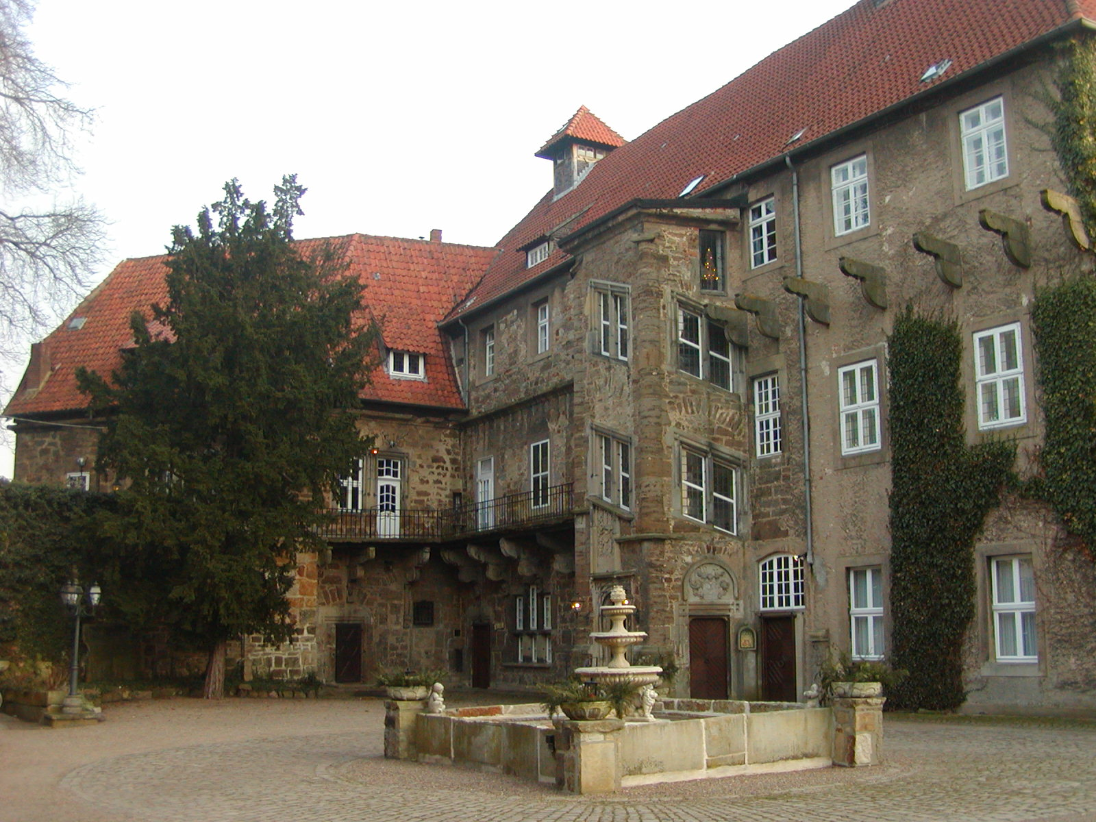 Inner courtyard of Schloss Petershagen